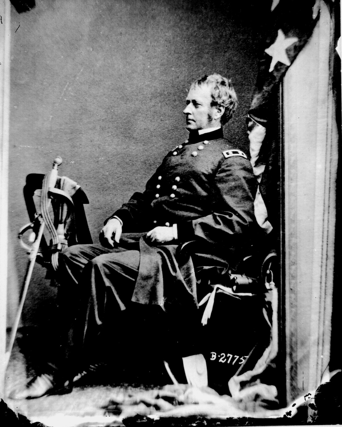 Joseph Hooker, photographed by Mathew Brady